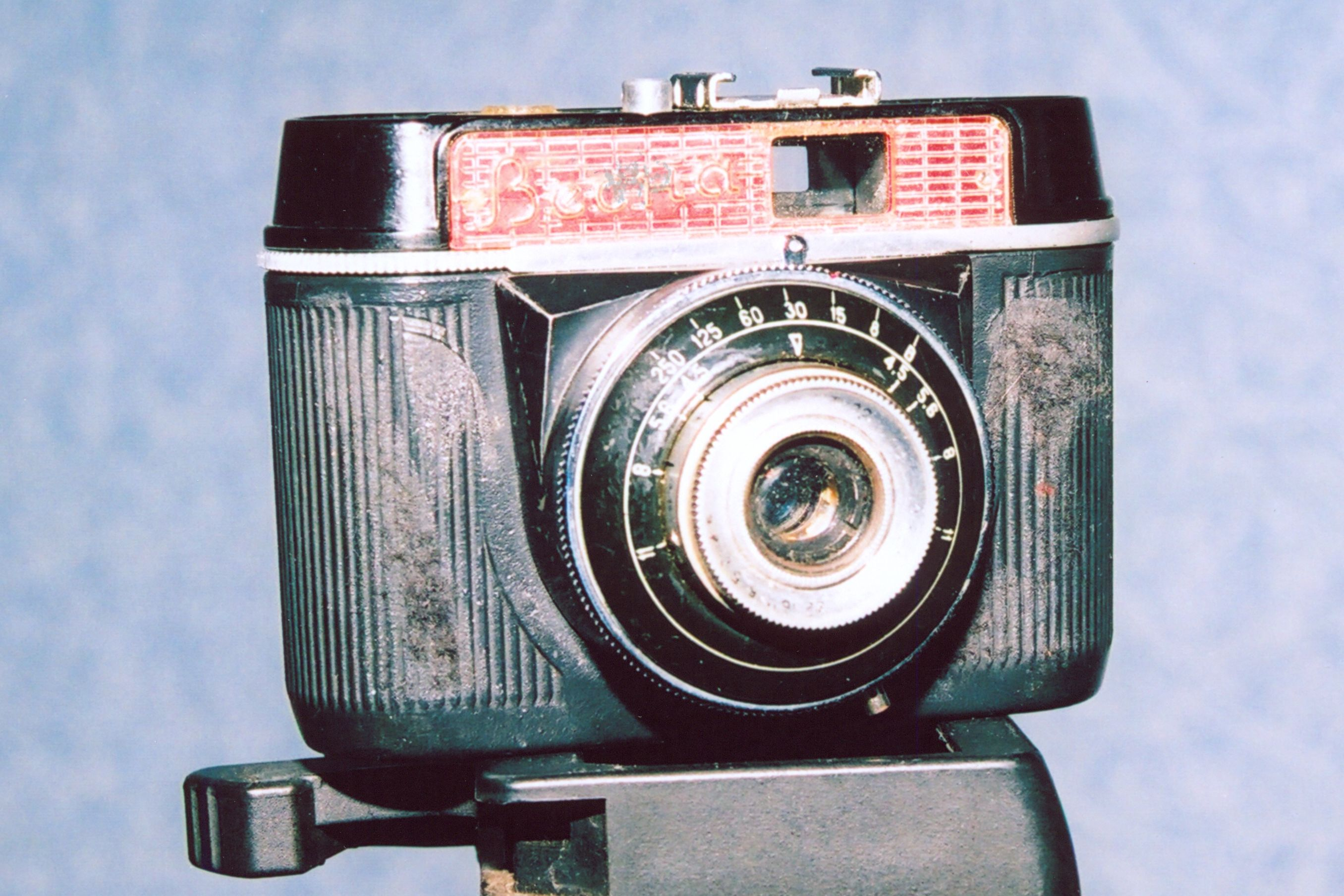 Фотоаппарат Весна